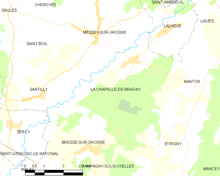 Map of French municipality